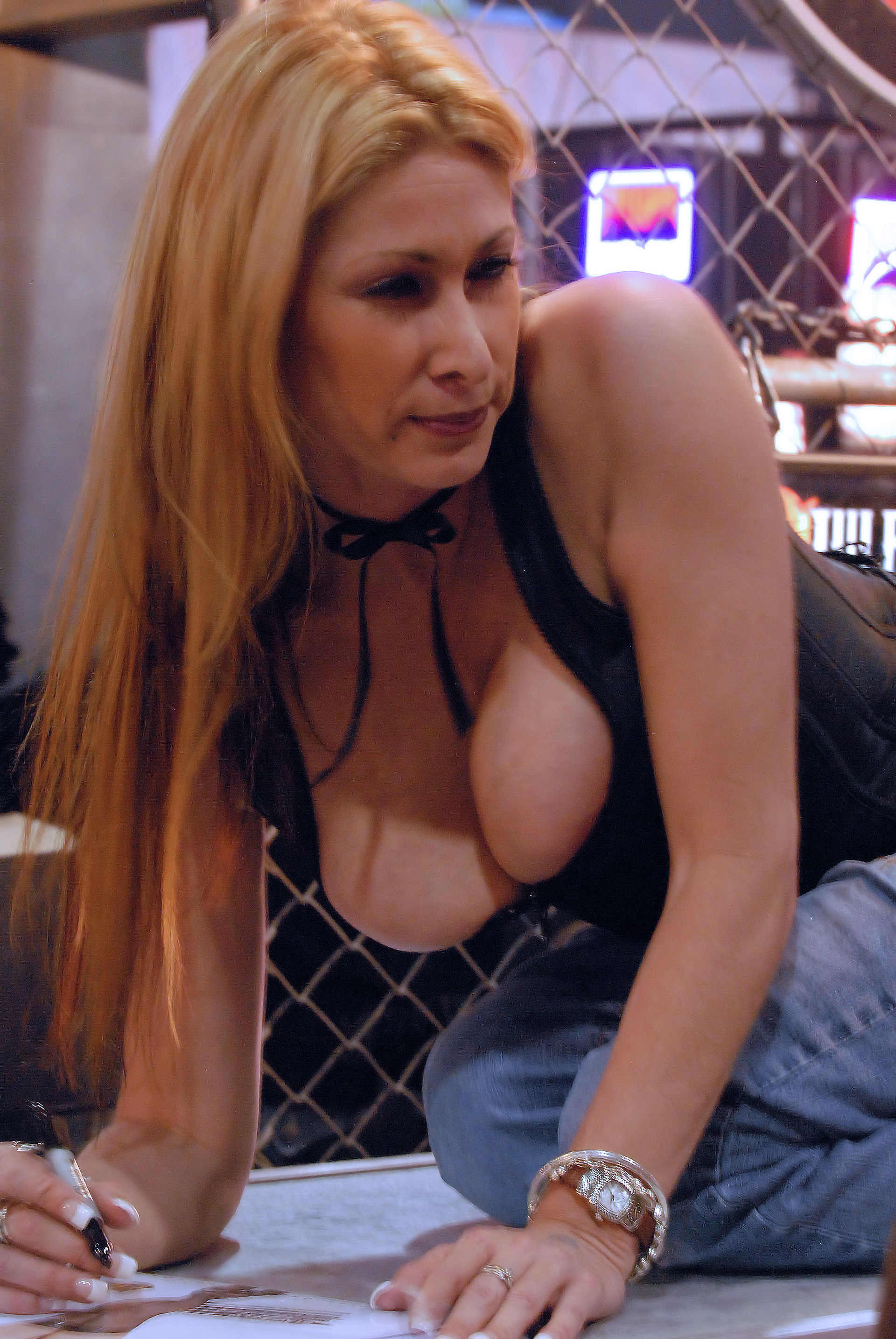 Tiffany Mynx at the 2009 AVN Adult Entertainment Expo